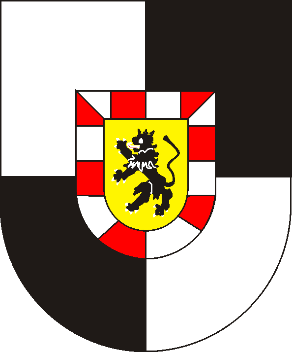 coats of arms of the principality of Hohenzollern-Hechingen; principal: county of Hohenzollern; heart: bourgraviat of Nürnberg